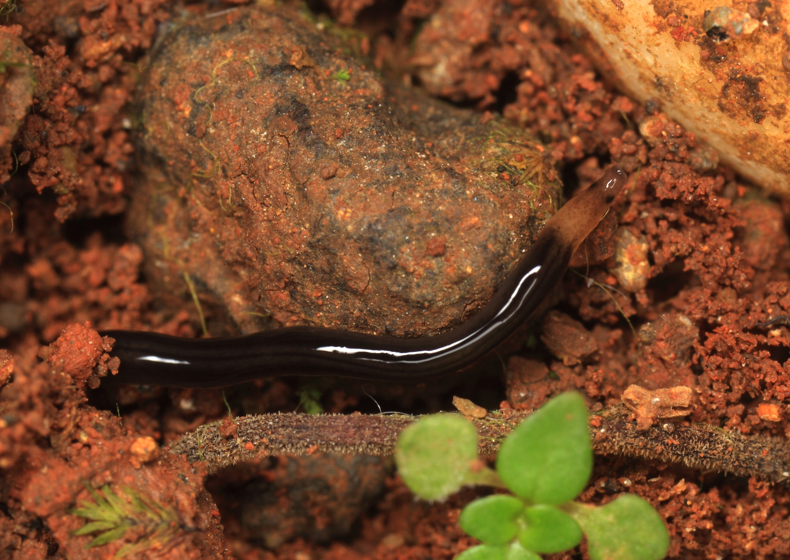 Unidentified terrestrial ribbon worm. The specimen is supposed to be a member of one of the following hoplonemertean genera: Geonemertes, Argonemertes or Leptonemertes.